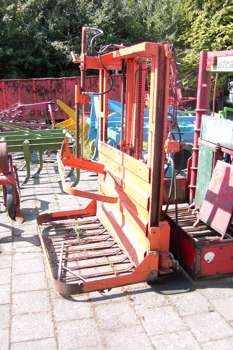 Silo block cutters